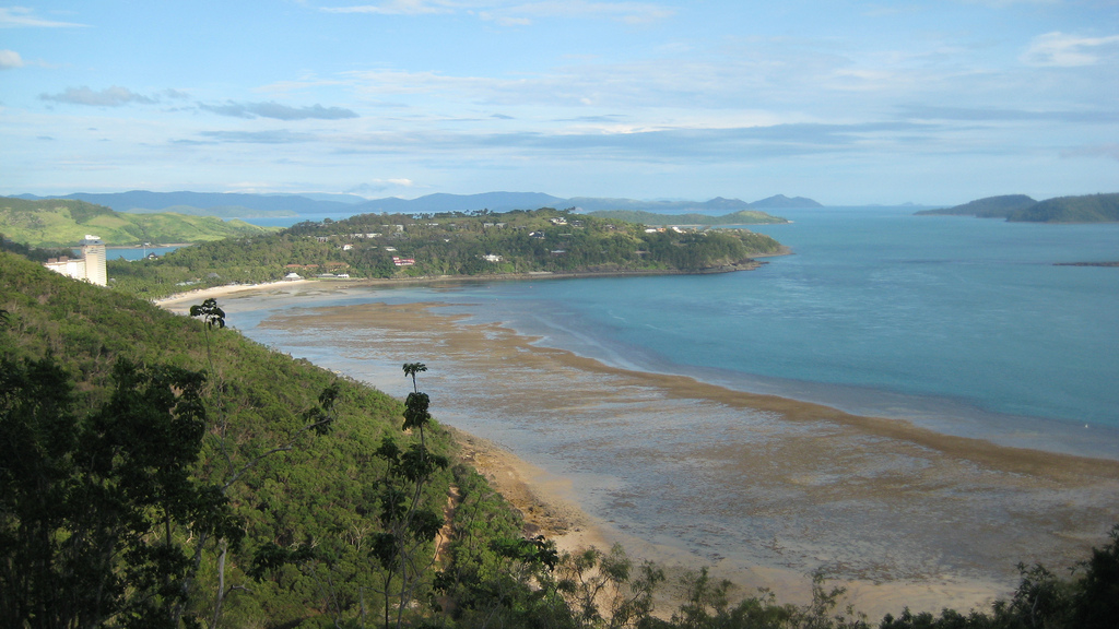 Hamilton Island, Whitsundays, Australia